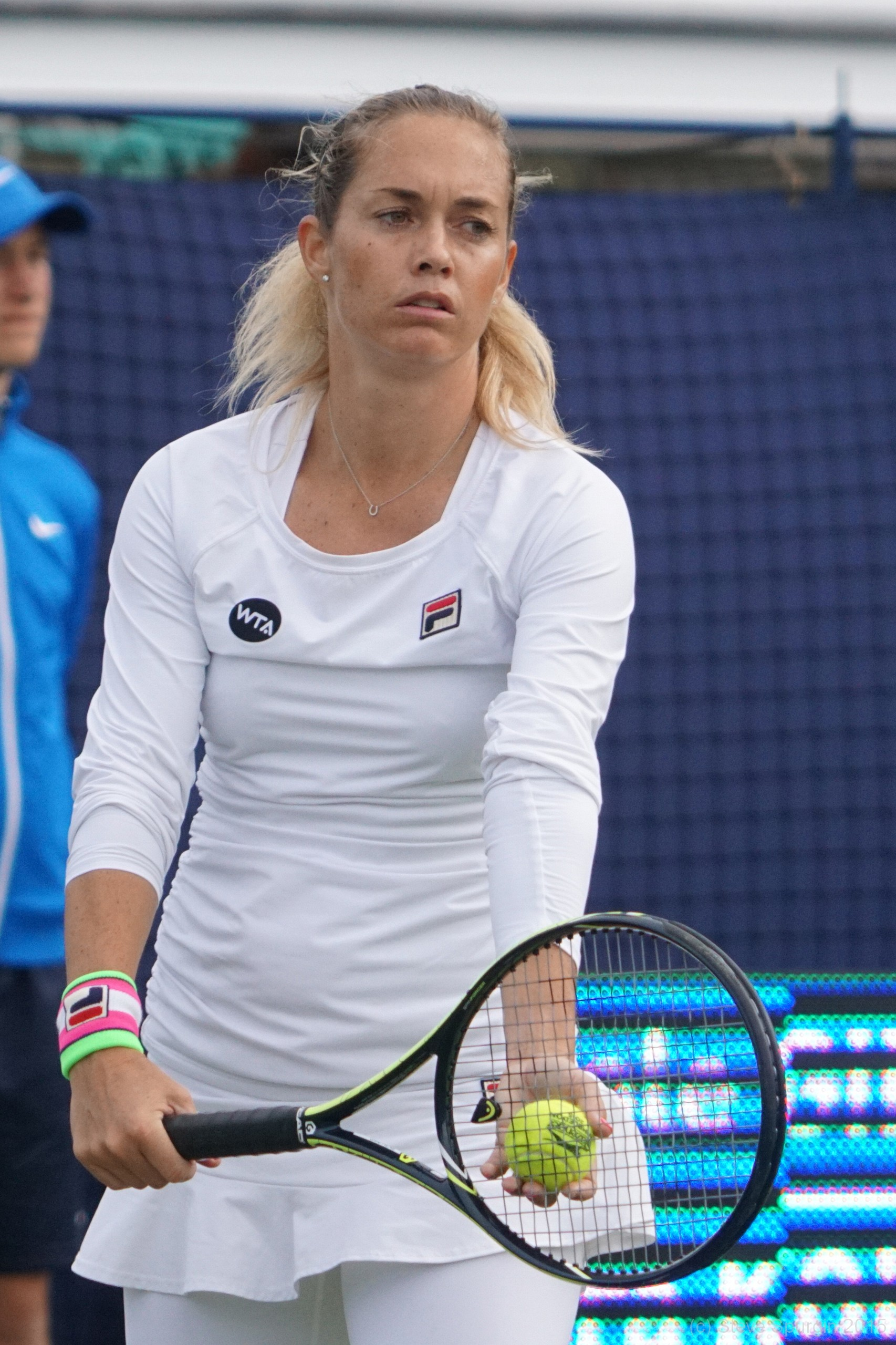 Koukalova at the 2015 Aegon International.